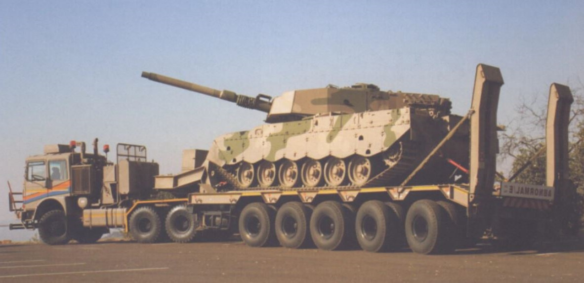 Olifant Mk 2 and Shongolo carrier